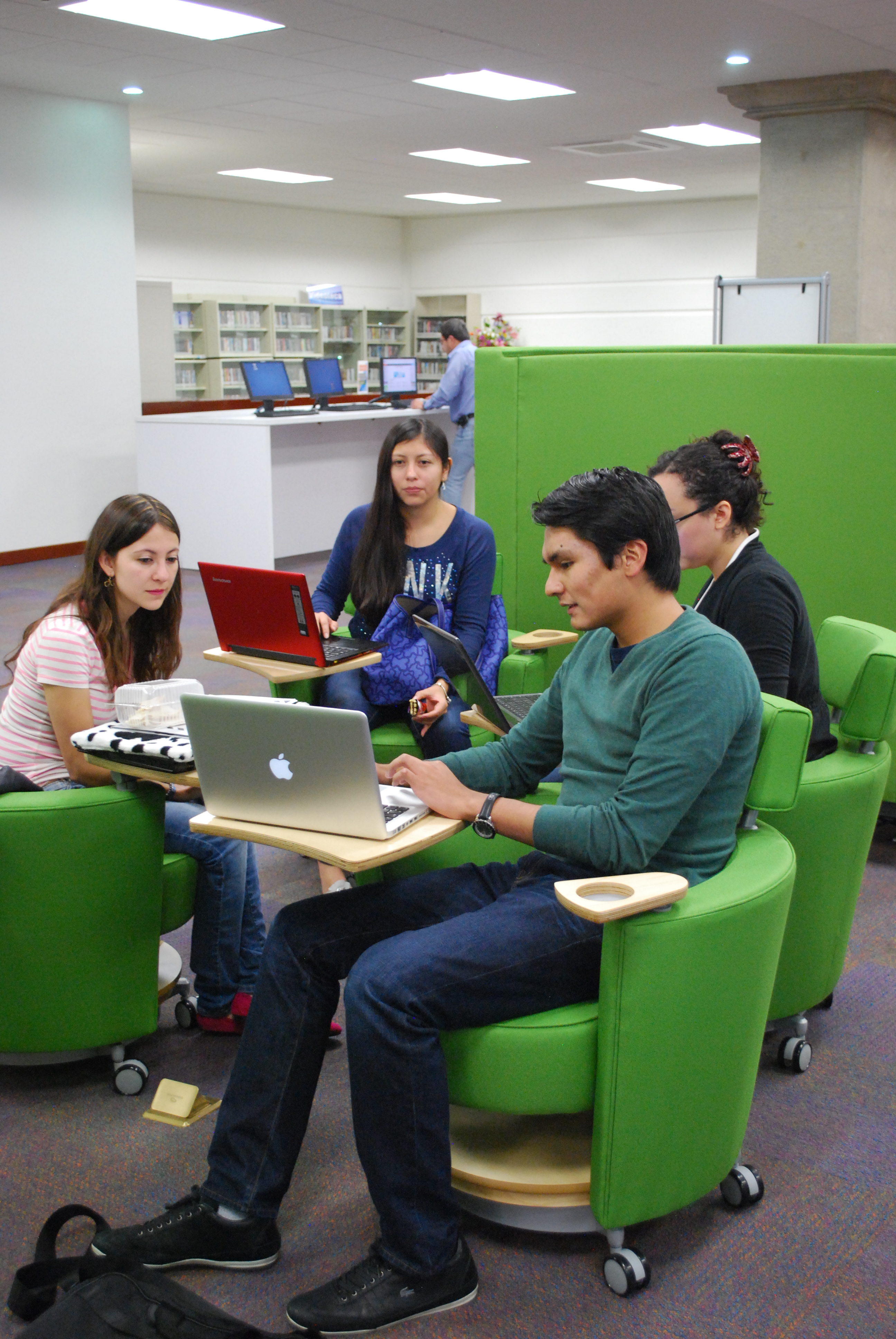 Group of students learning how to use Wikipedia at ITESM-CCM library.